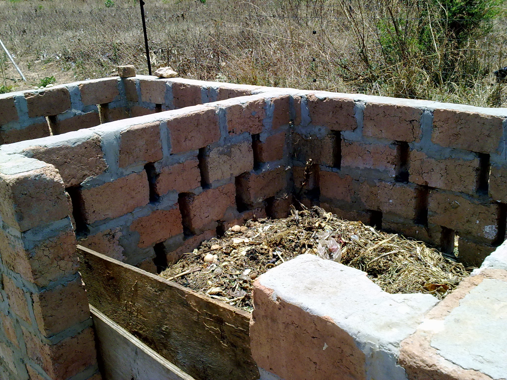 biowaste and other waste farm produce used to make compost